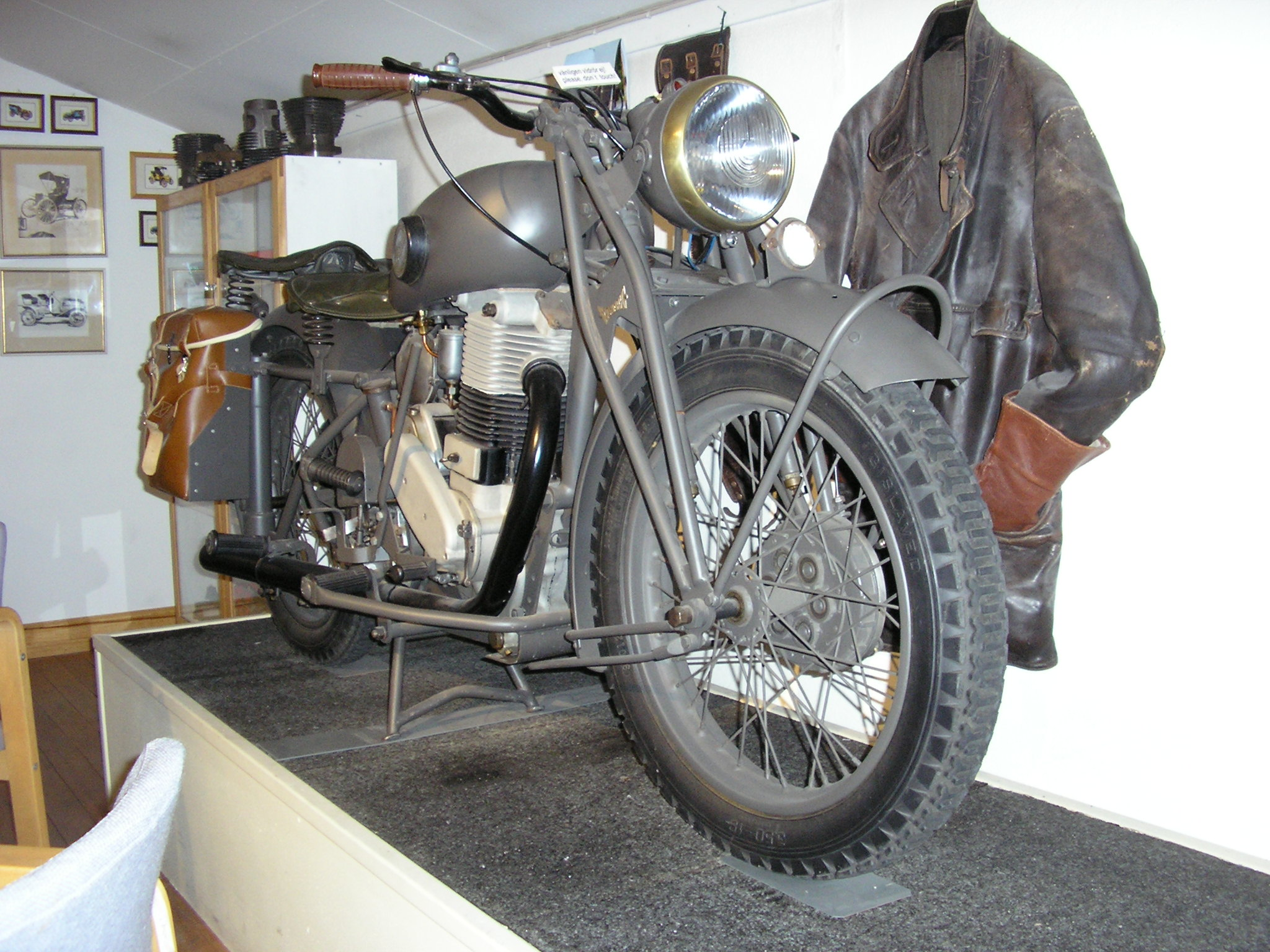 1942 Albin-Monark MC42. Swedish military motorcycle made in 3000 copies in 1942. Efter the war about 100 was assembled from spare parts. Albin Motor made the engine (a modified Husqvarna 112TV) as well as gearbox and chain protection. A few machine was also fitted with side valve engines. The rest of the motorcycle was built in Varberg. Single cylinder 500 cc engine giving 19.6 hp at 4000 rpm.